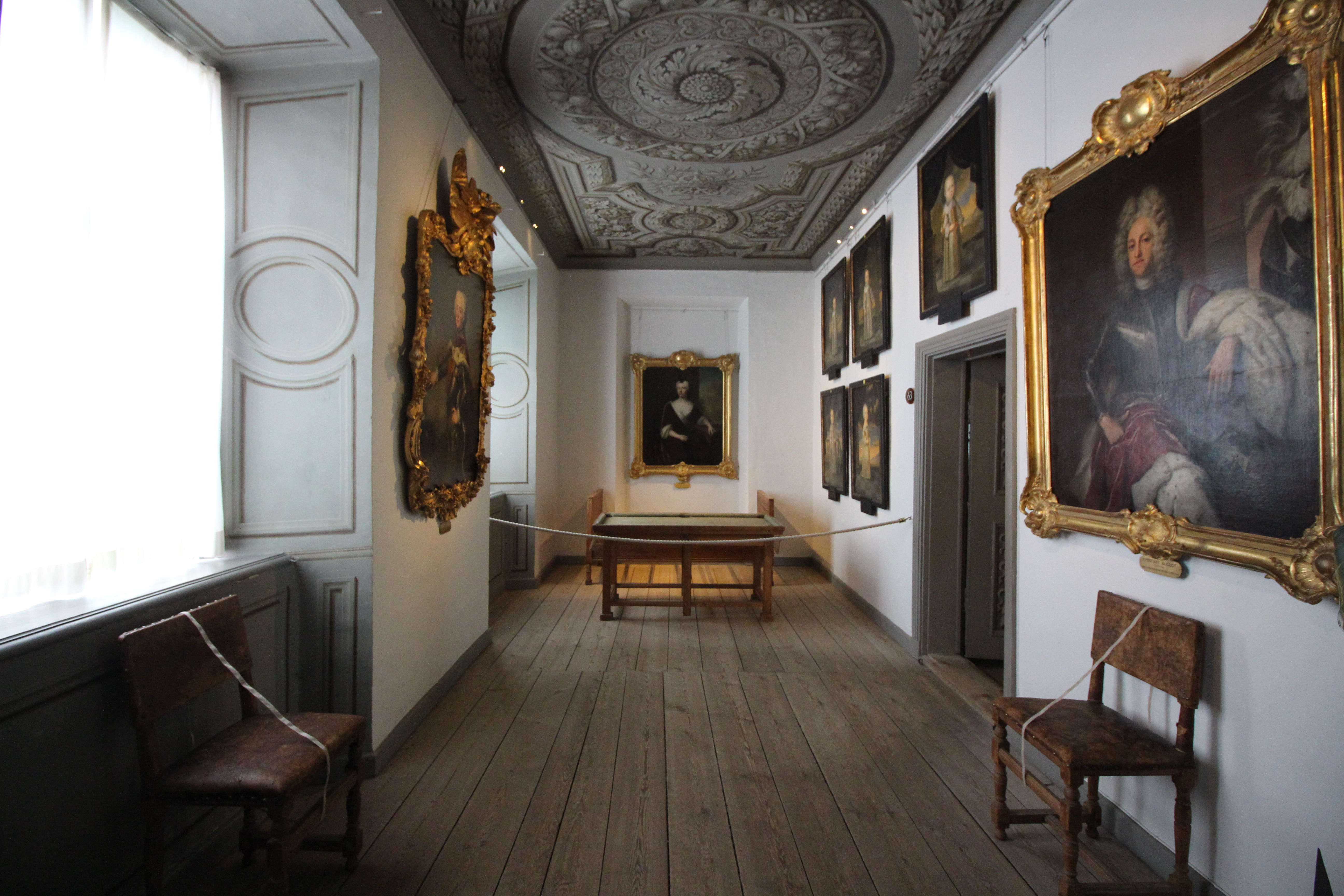 Gripsholm castle, Sweden